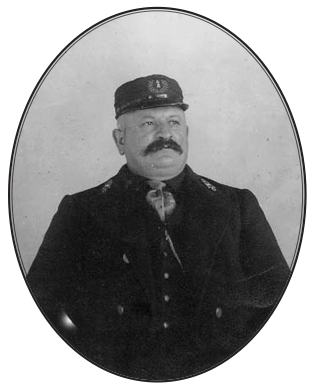 William Baumgartner, the first head keeper at Point Cabrillo, 1908–1923